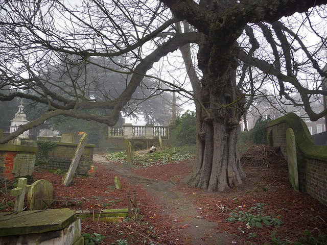 St John at Hampstead, churchyard, near to Hampstead, Camden, Great Britain.